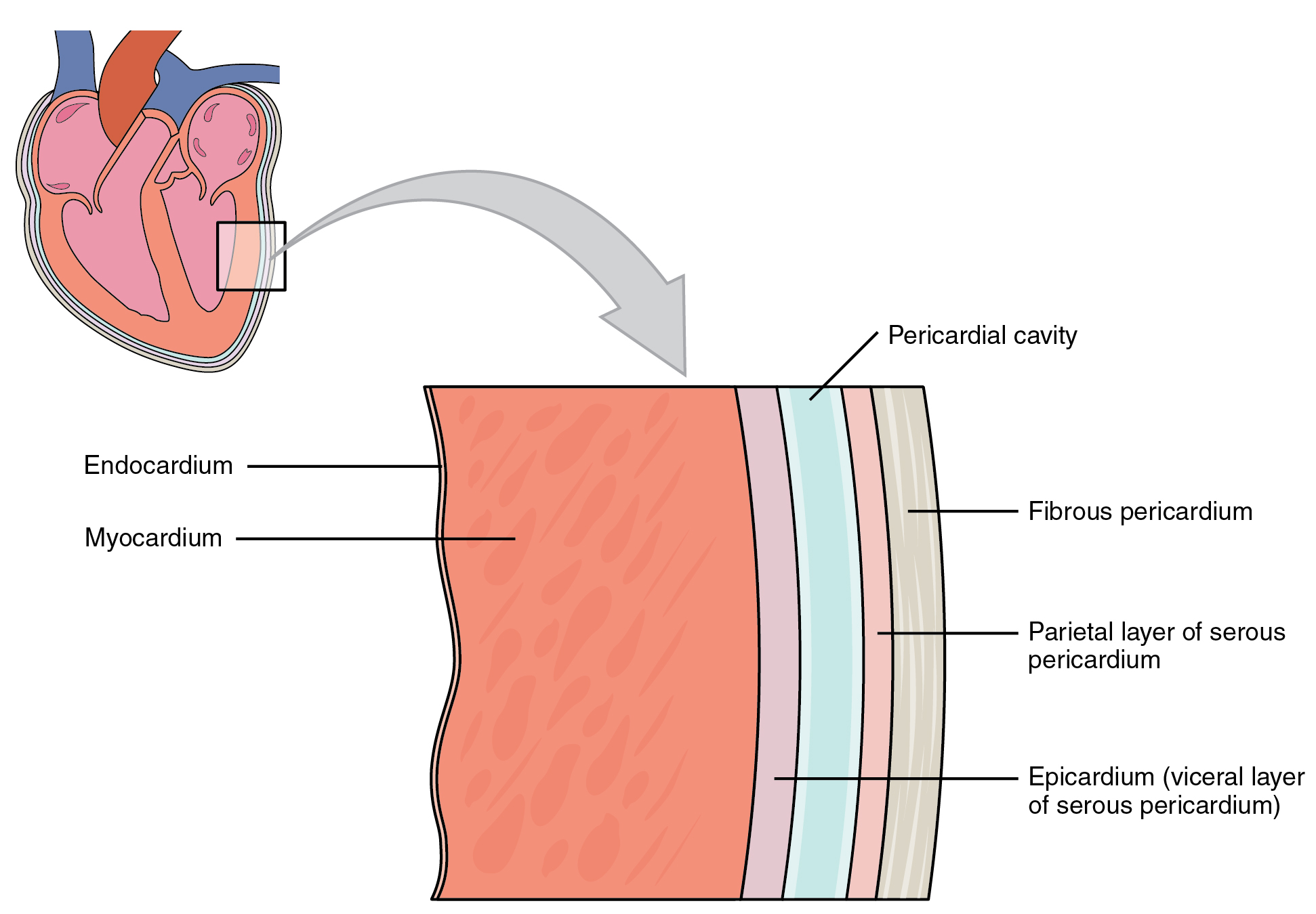 Illustration from Anatomy & Physiology, Connexions Web site. Jun 19, 2013.